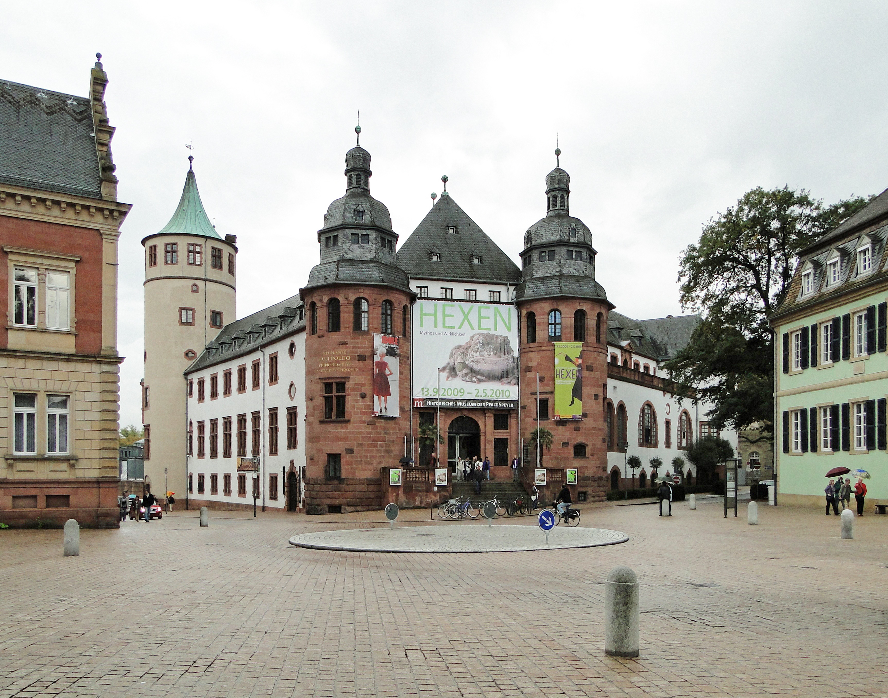 Historical Museum of the Palatinate (front side), Speyer, Rhineland-Palatinate, Germany